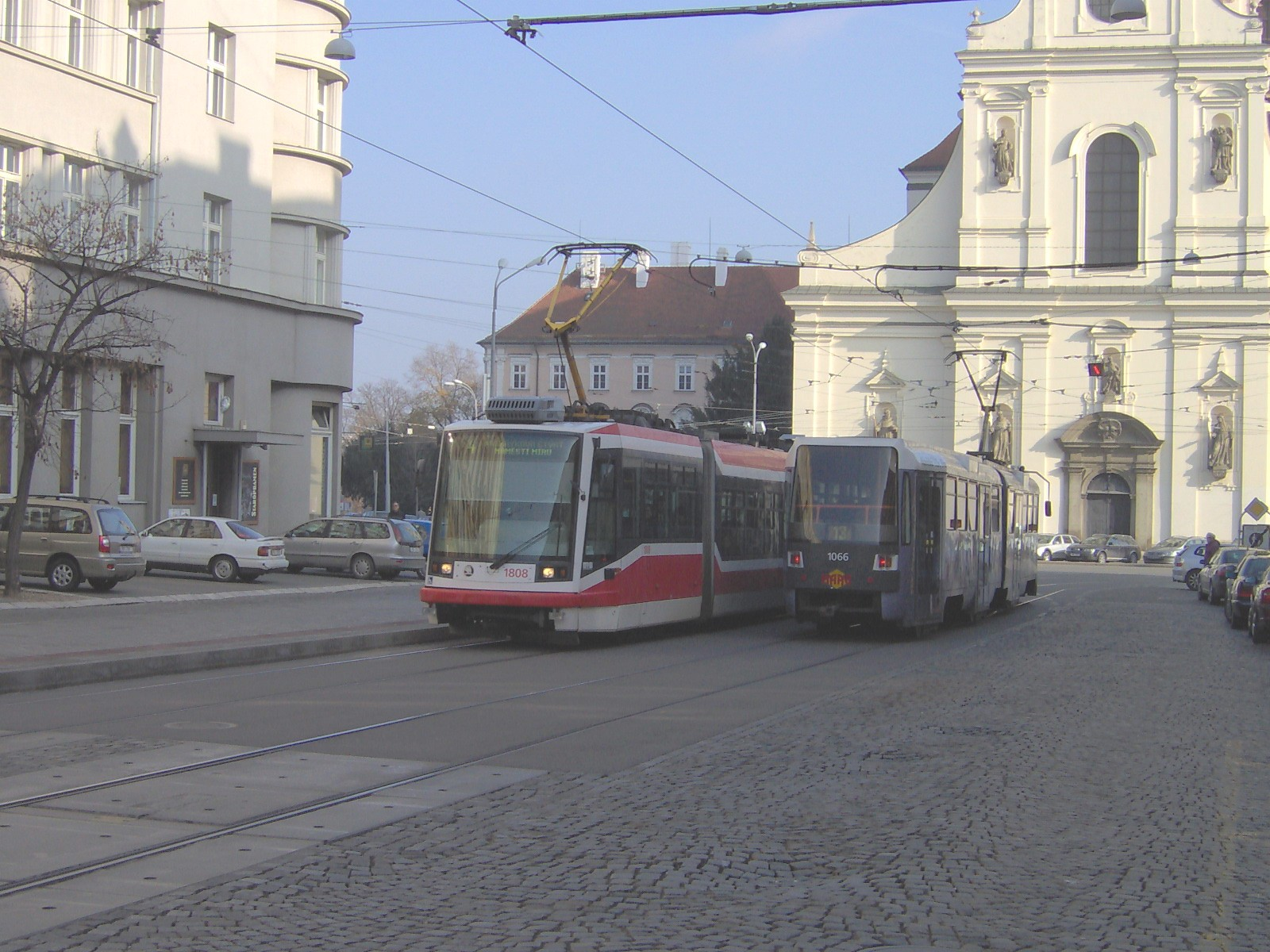 Tram track in Joštova street, Škoda 03T and Tatra K2R trams. Brno, Czech Republic